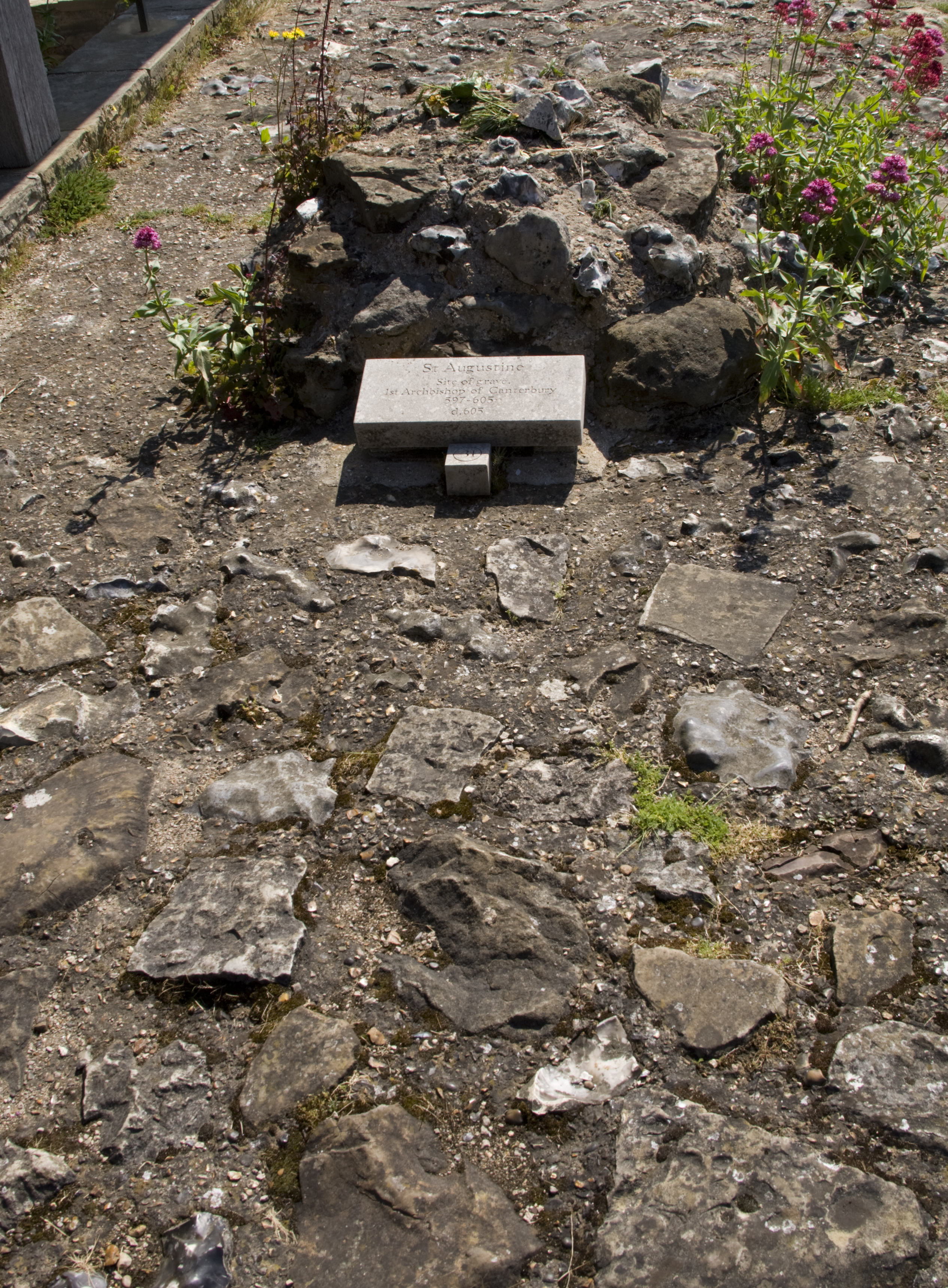 St Augustine's Abbey, Canterbury - gravesite of St Augustine, first archbishop of Canterbury